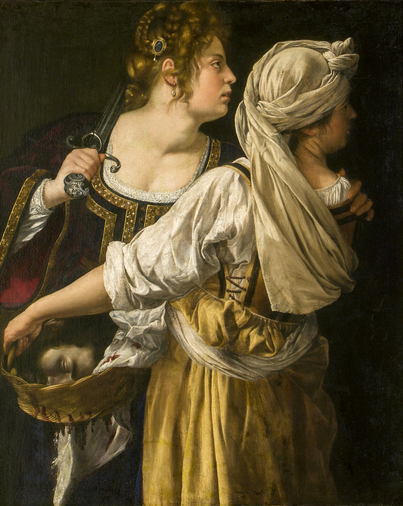 Judith with her maidservant holding a basket severed head of Holofernes